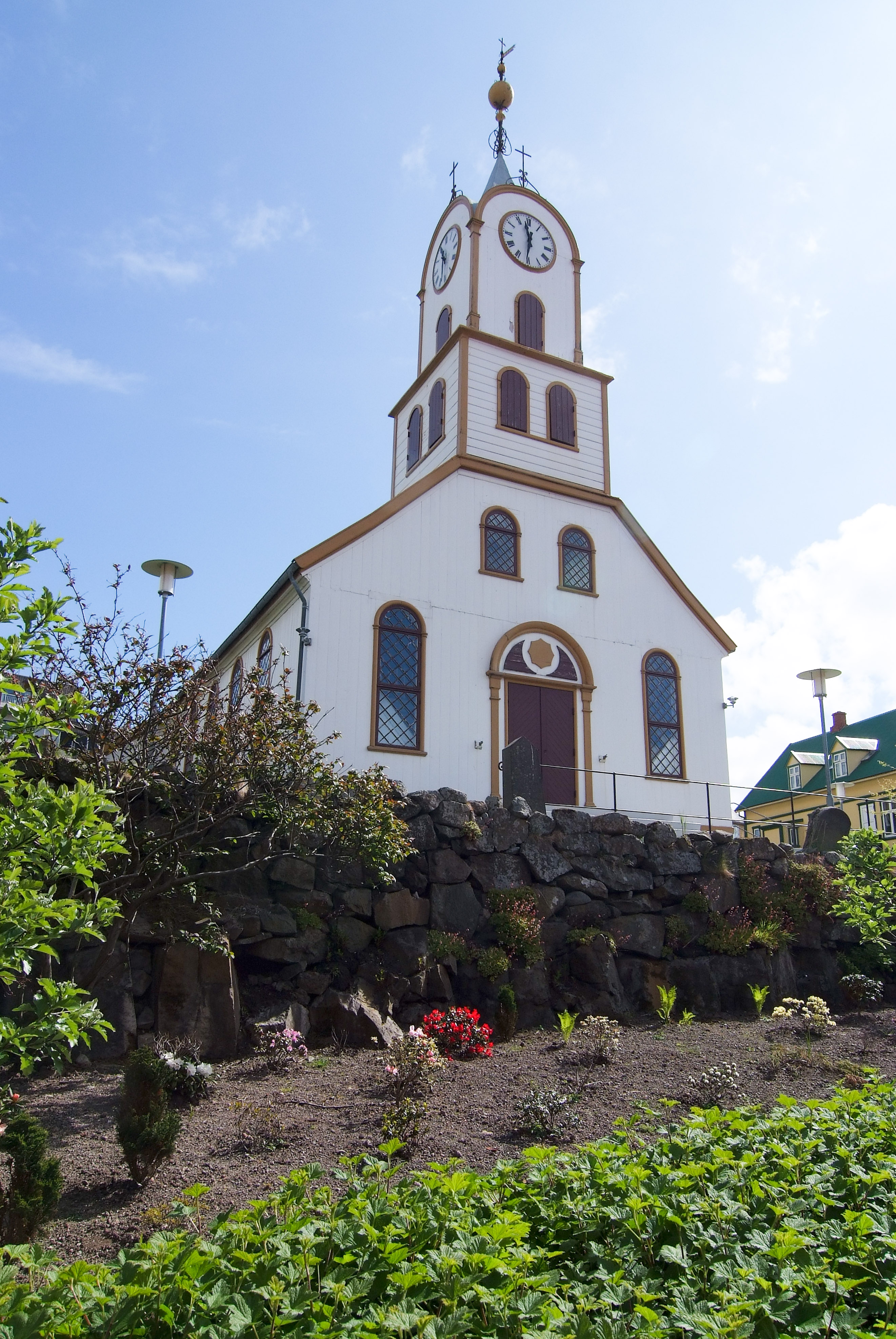 Tórshavn, Faroe Islands